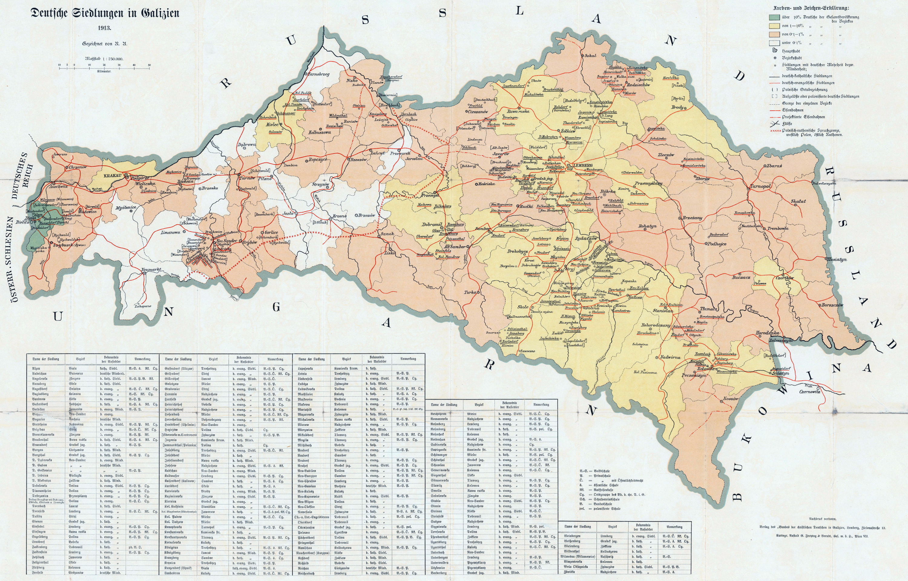 German Settlements in Galicia, 1913